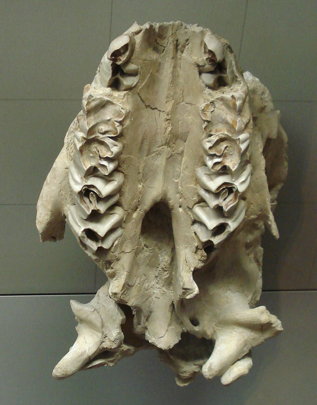 fossil of aceratherium